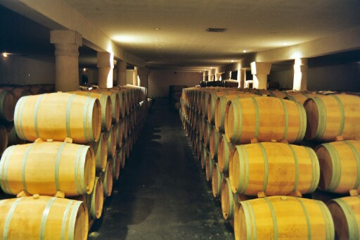 Château Pichon-Longueville-Baron in Pauillac